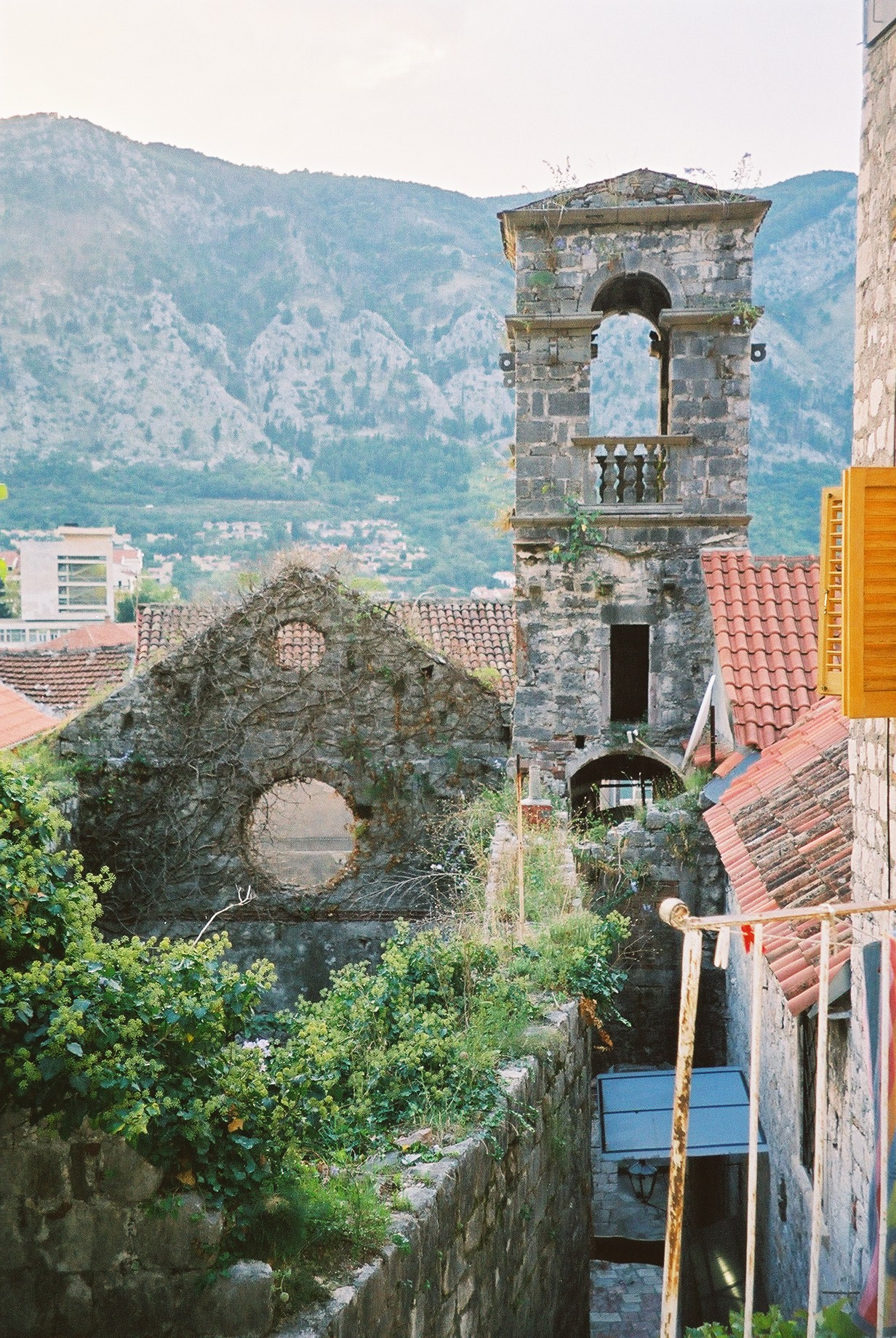 Description: St. Franjo church (after 1667). Abandoned church (after 1840) seen from uphill in Kotor, Montenegro Source: Sares Date: 25 Sept. 2005 Author: Sares